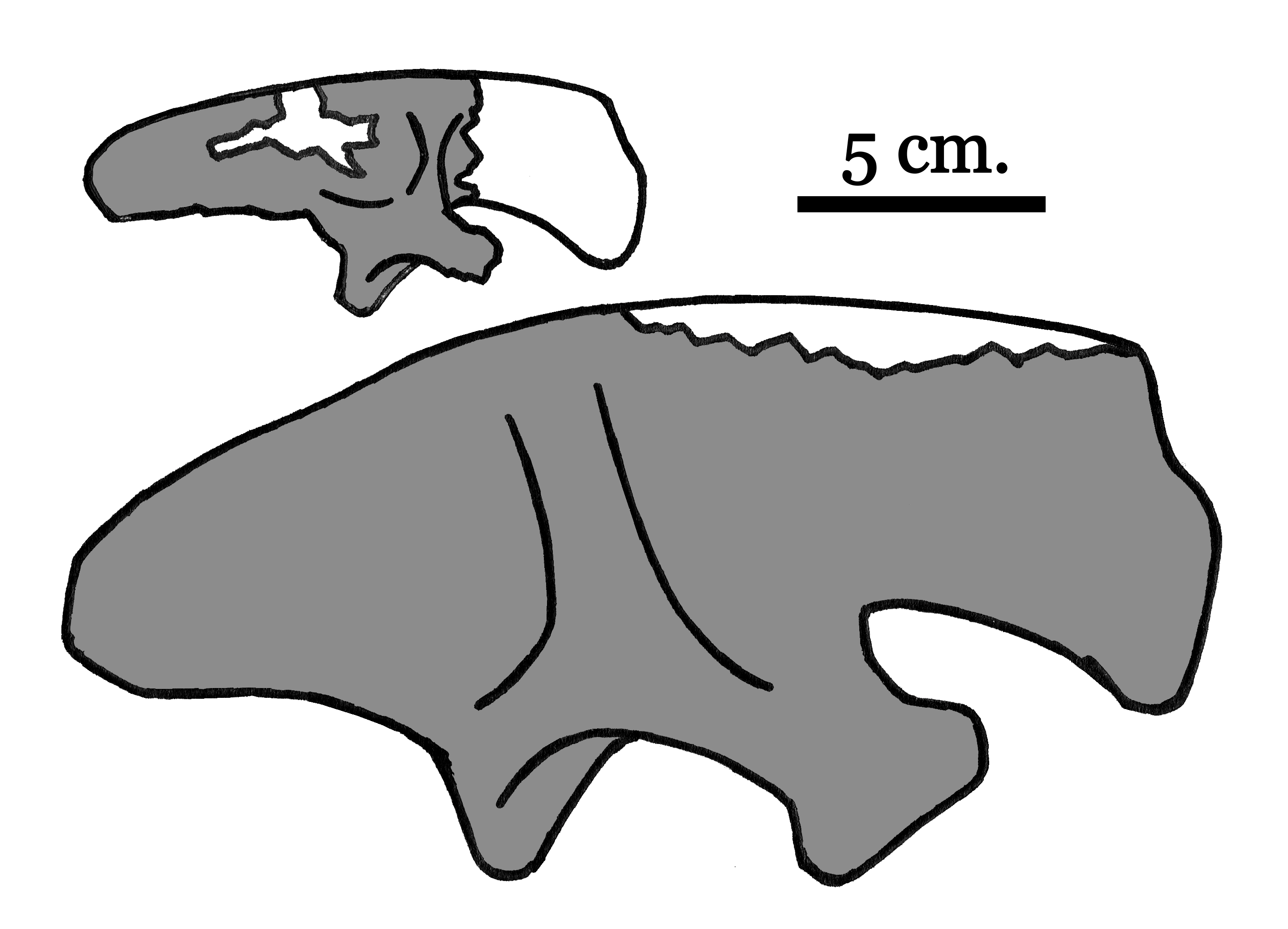 Diagram of 2 ilia contributed to Stokesosaurus (Dinosauria, Saurichia, Theropoda, Coelurosauria, Tyrannosauroidea). The bigger one are from the holotype (UUVP 2938),[1] and the smaller one are from the South Dakota specimen, an alleged juvenile specimen.[2] They are drawn to scale. References ↑ Madsen J.H. (1974), "A new theropod dinosaur frome the upper Jurassic of Utah", Journal of Paleontology 48(1): p. 27-31. ↑ Chure D.J., Foster J.R. (2000), "An Ilium of a Juvenile Stokesaurus (Dinosauria, Theropoda) from the Morrison Formation (Upper Jurassic: Kimmeridgian), Meade County, South Dakota", Brigham Young University Geology Studies 45: p. 5-10.